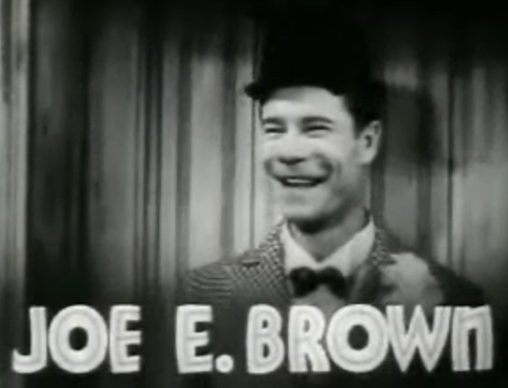 Cropped screenshot of Joe E. Brown from the trailer for the film Bright Lights.